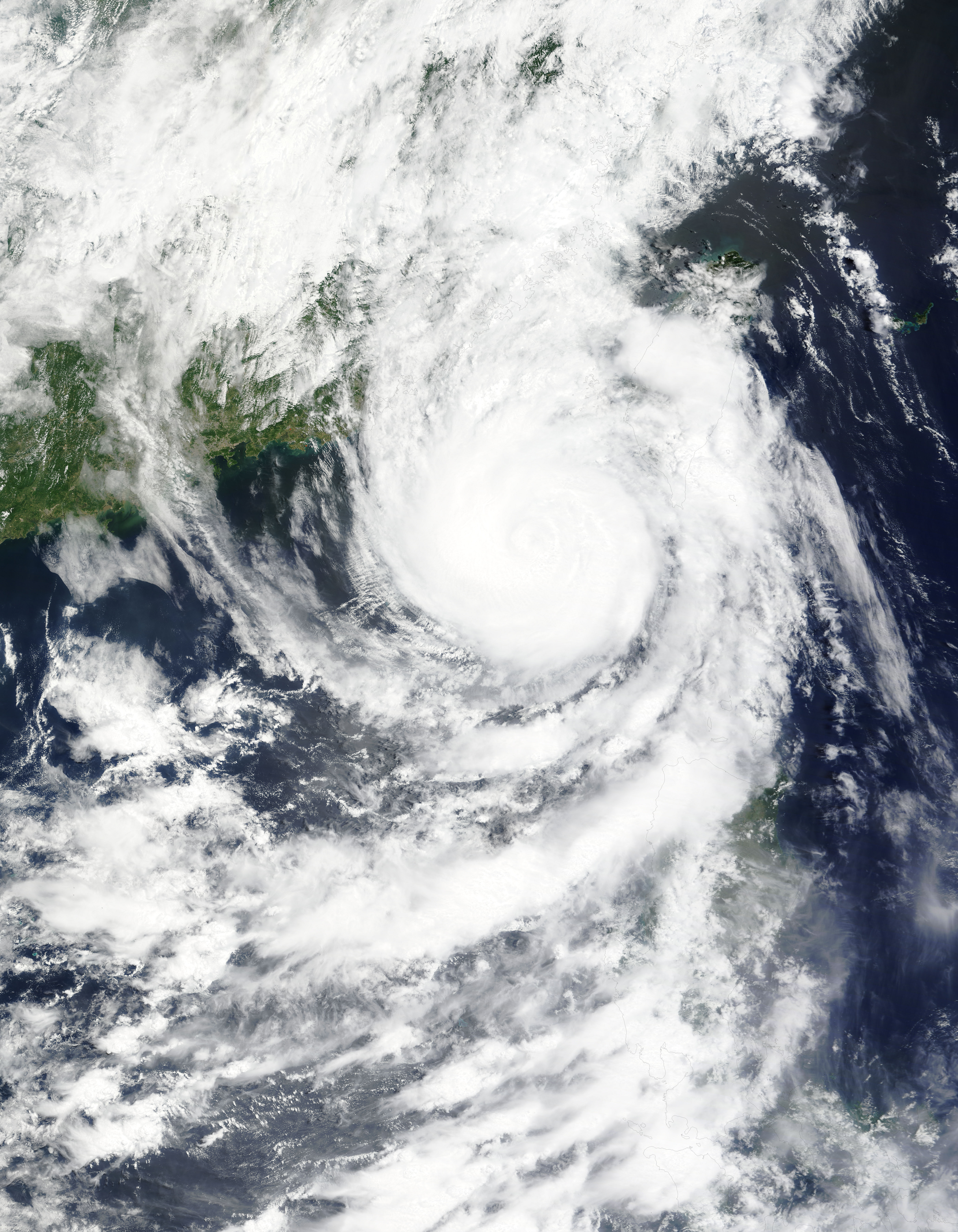 Tropical Storm Linfa (10W) in the South China Sea